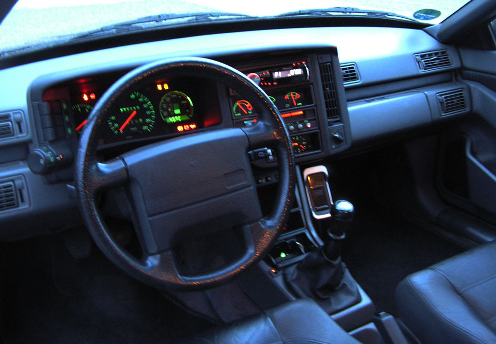 Cockpit of a late 480 equipped with air condition, airbag steering and full leather upholstery